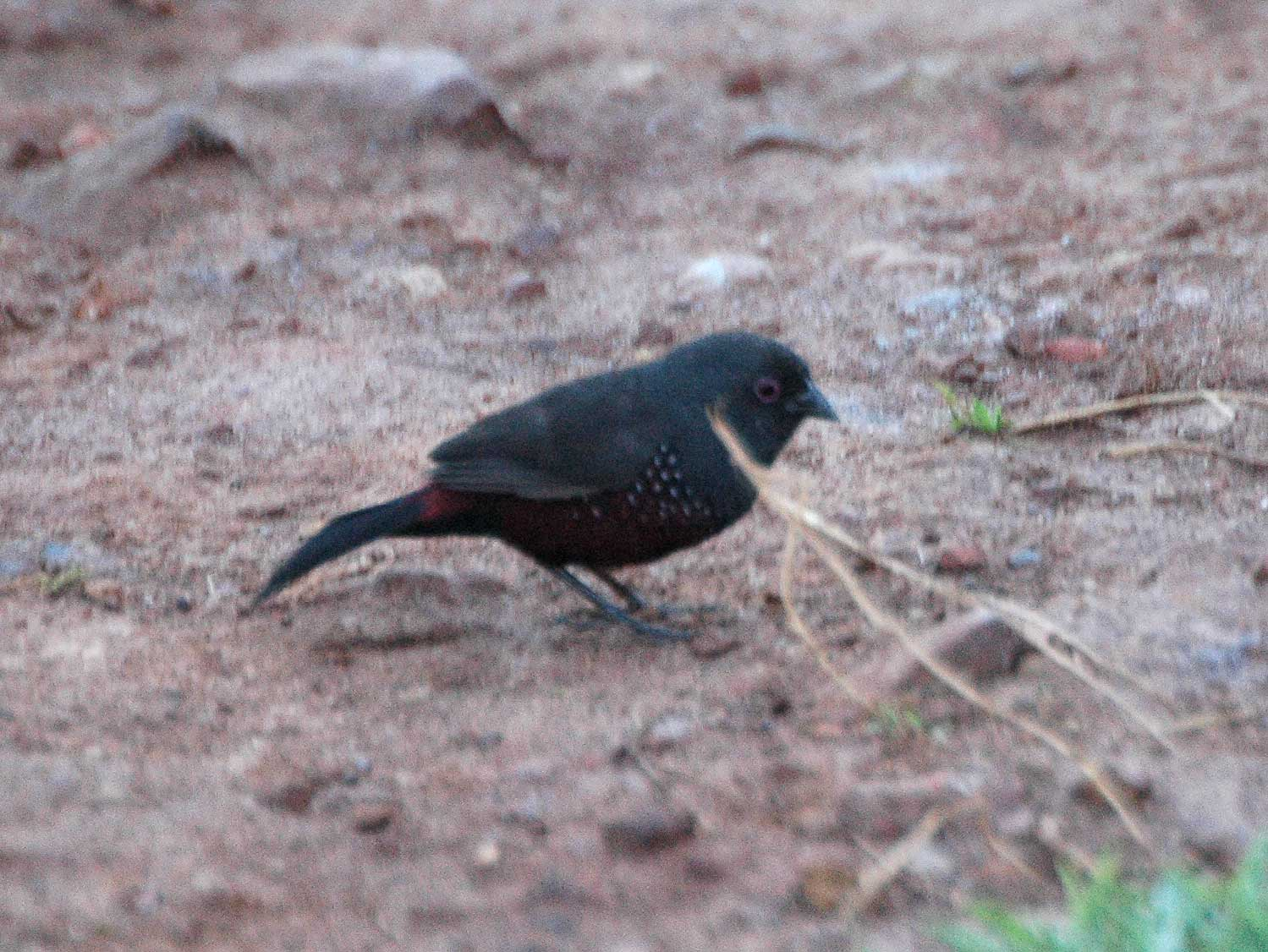 Dusky Twinspot (Euschistospiza cinereovinacea) Mosese, Bwindi NP, SW Uganda